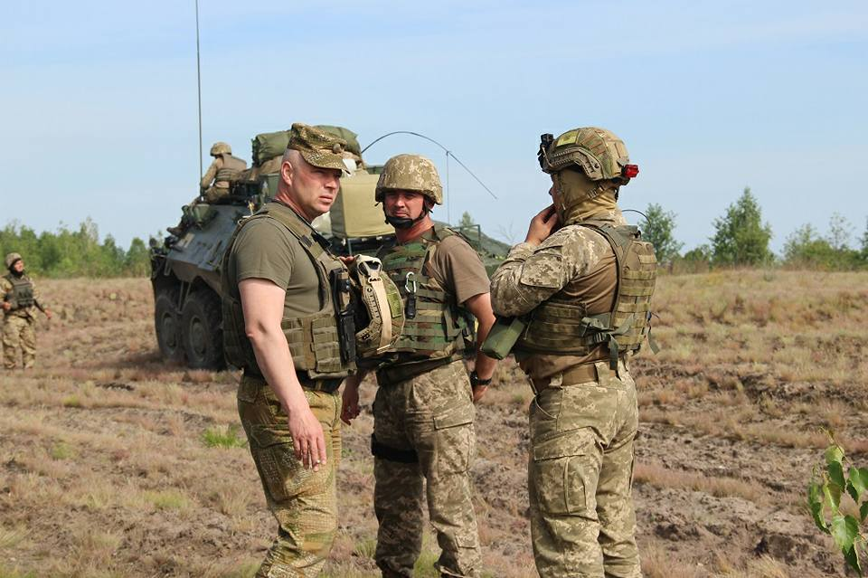 95th Air Assault Brigade training, 2017 (Ukraine)